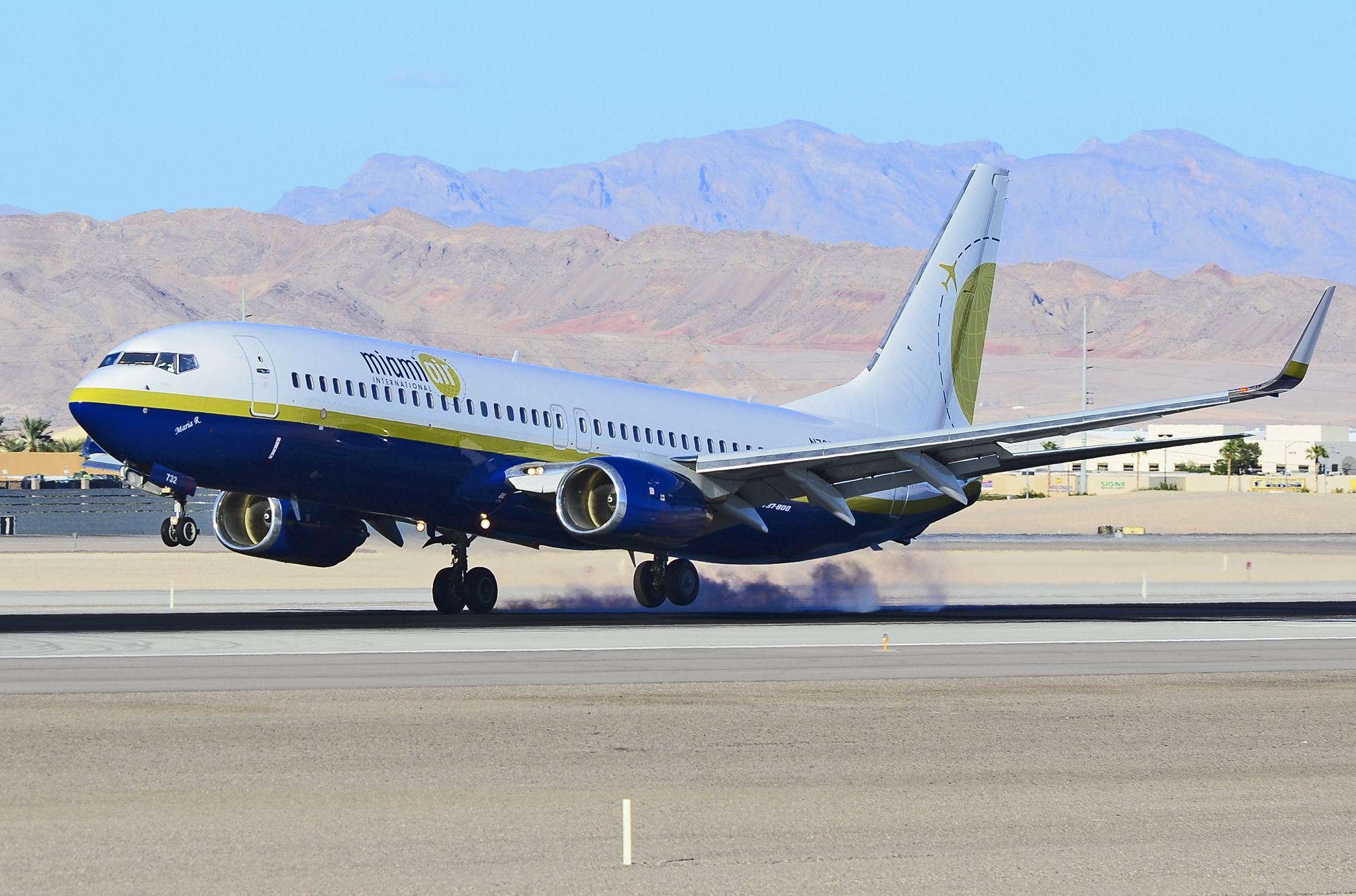 Ex "Lois Too" McCarran International Airport (KLAS) Las Vegas, Nevada TDelCoro September 22, 2013